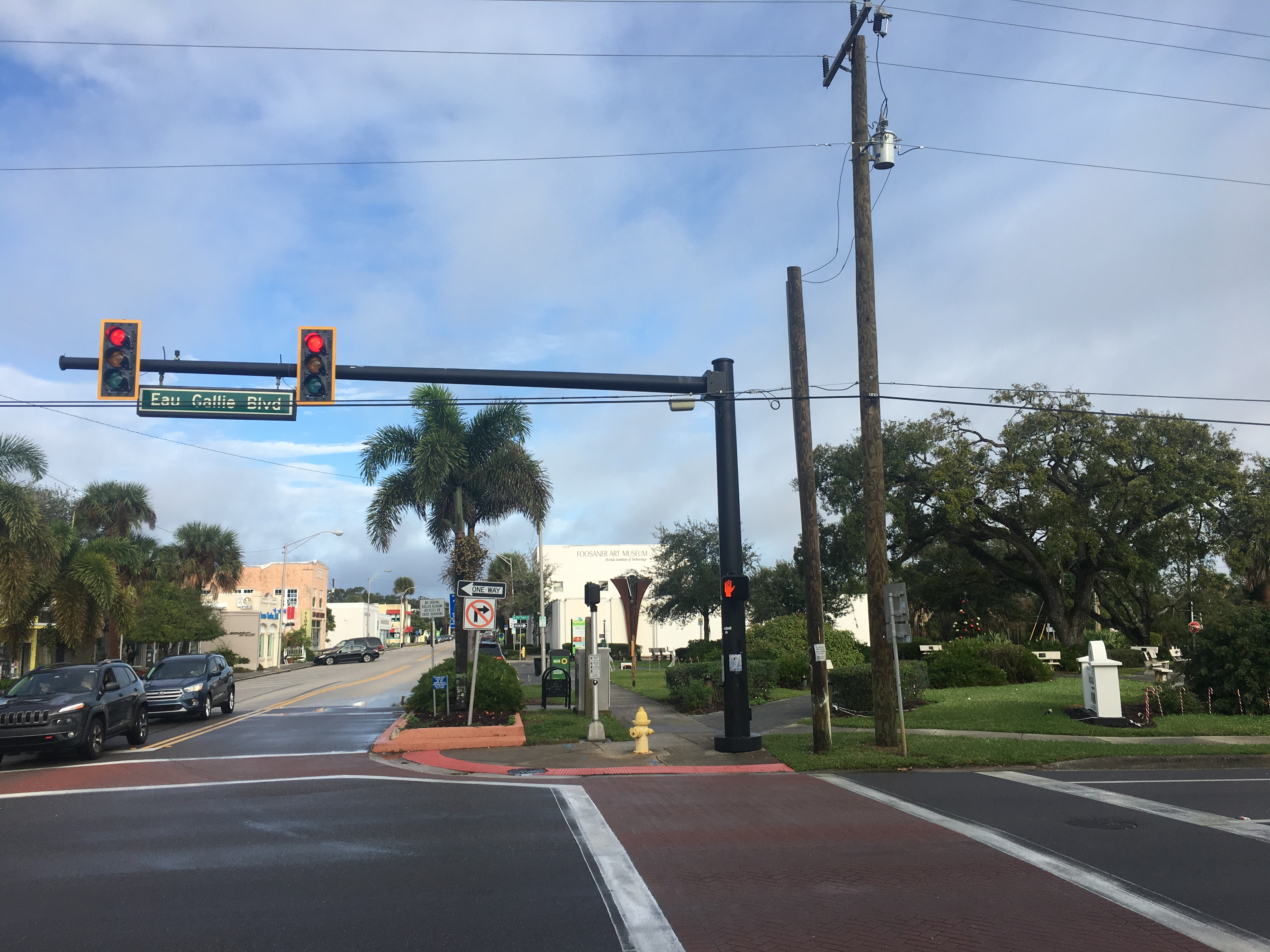 Eau Gallie